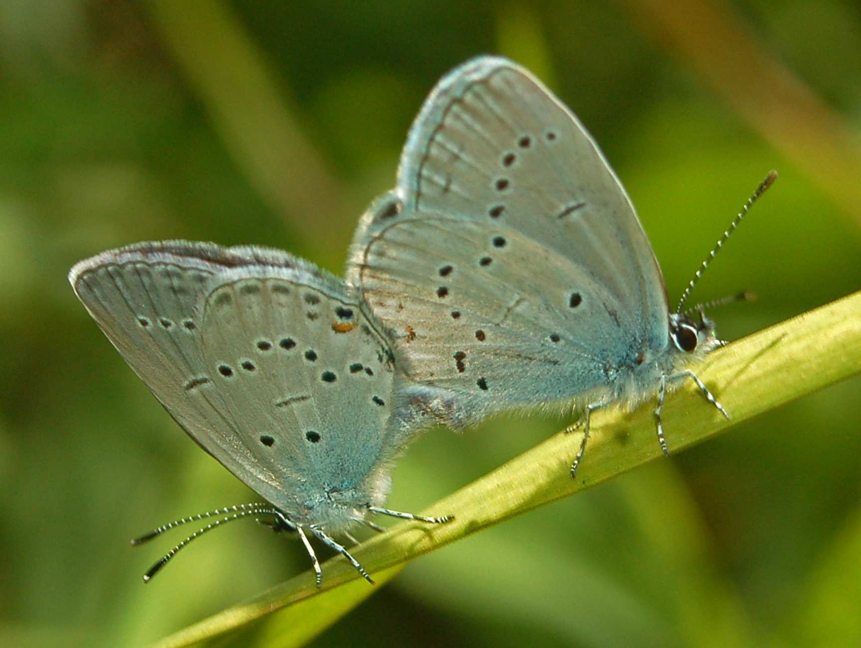 Cupido alcetas. Mating pair. Busalla, Genova, Italy